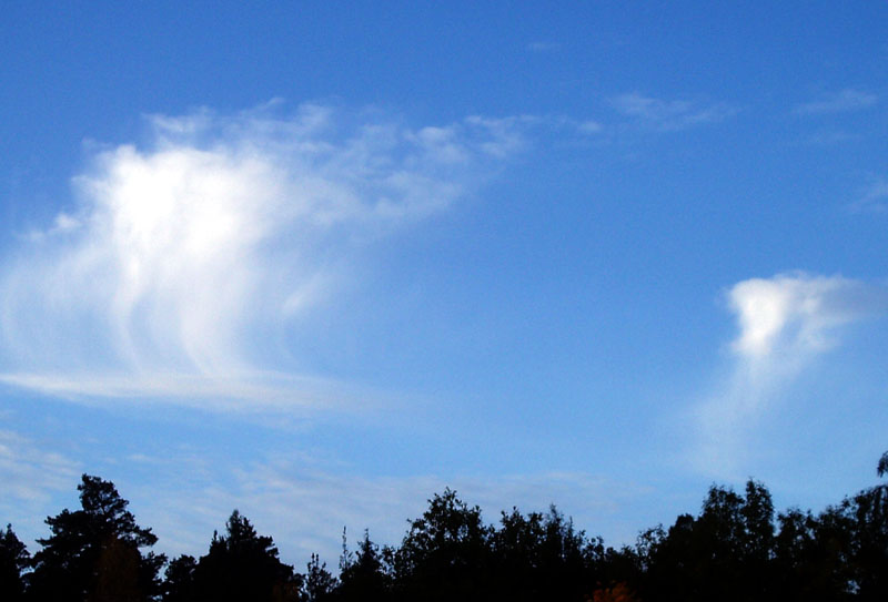 Altocumulus floccus clouds with virga